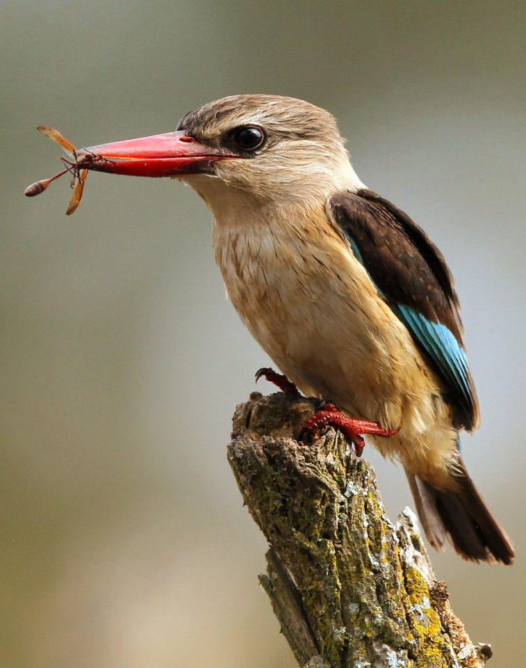 Male Brown-hooded Kingfisher, Halcyon albiventris caught a wasp, Tzaneen area, Limpopo, South Africa